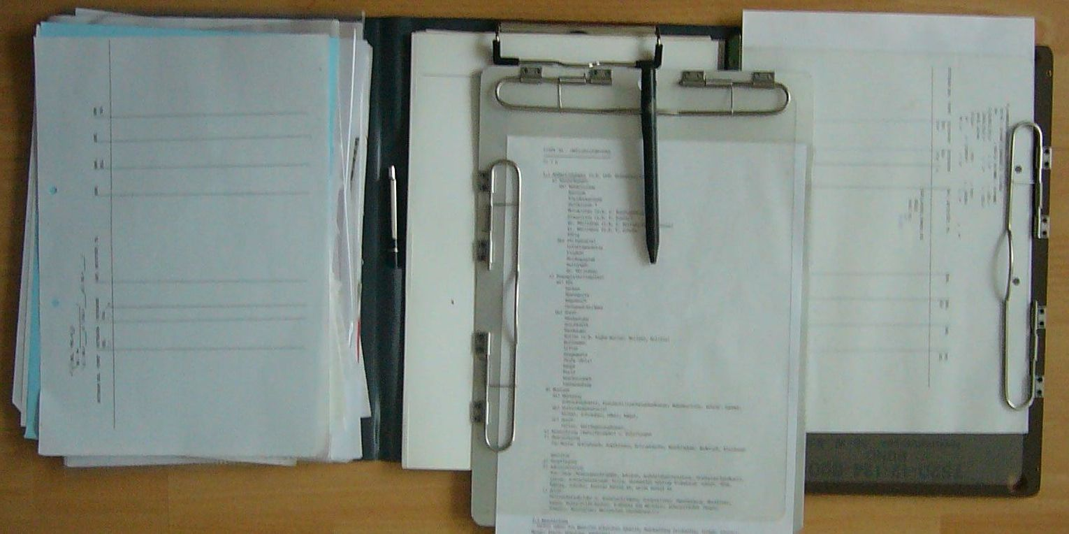 Clipboards